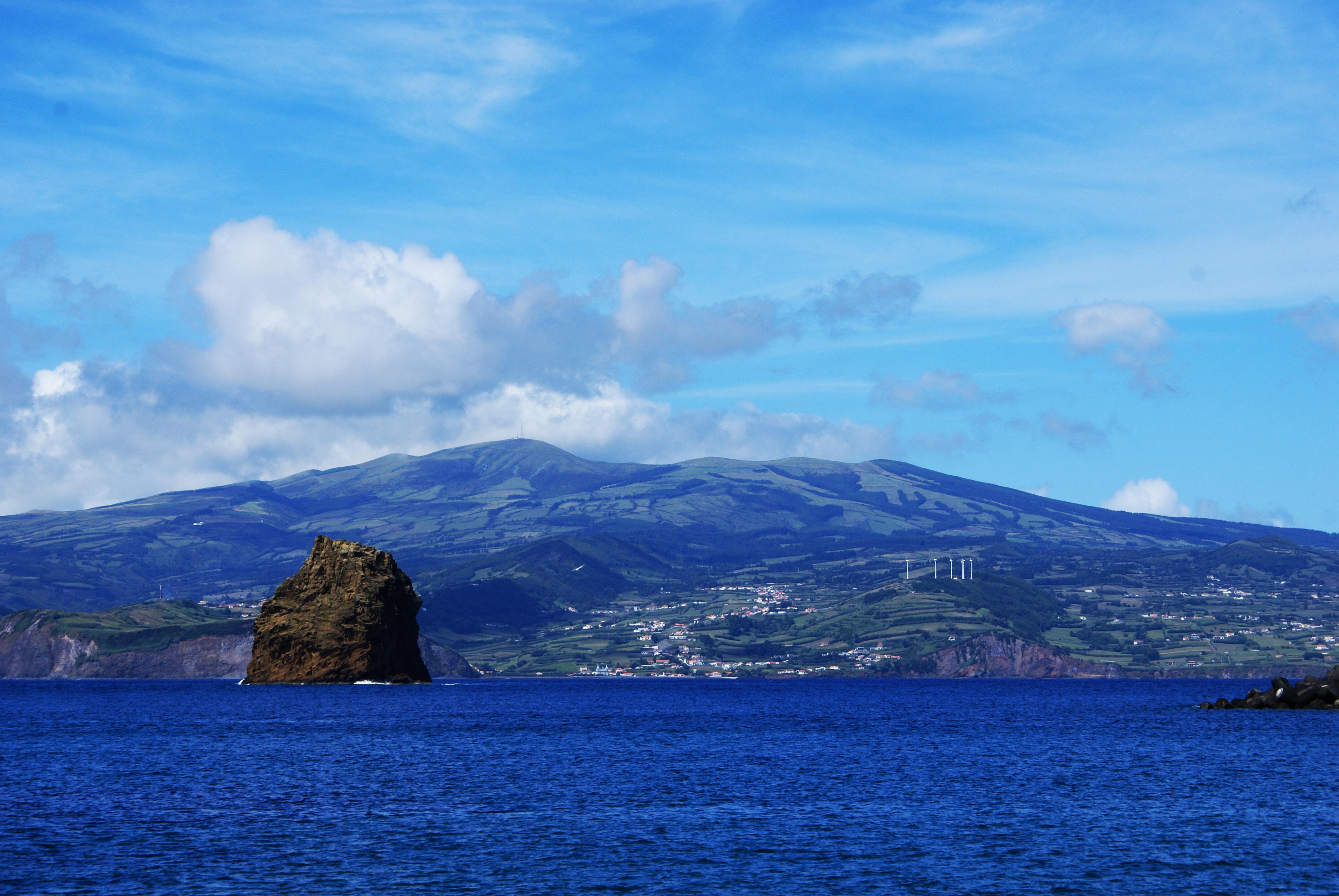 The island of Faial, looking towards Espalamaca and Praia do Almoxarife, with the Ilhéu Levantado in the foreground, as seen from the island of Pico, Azores, Portugal